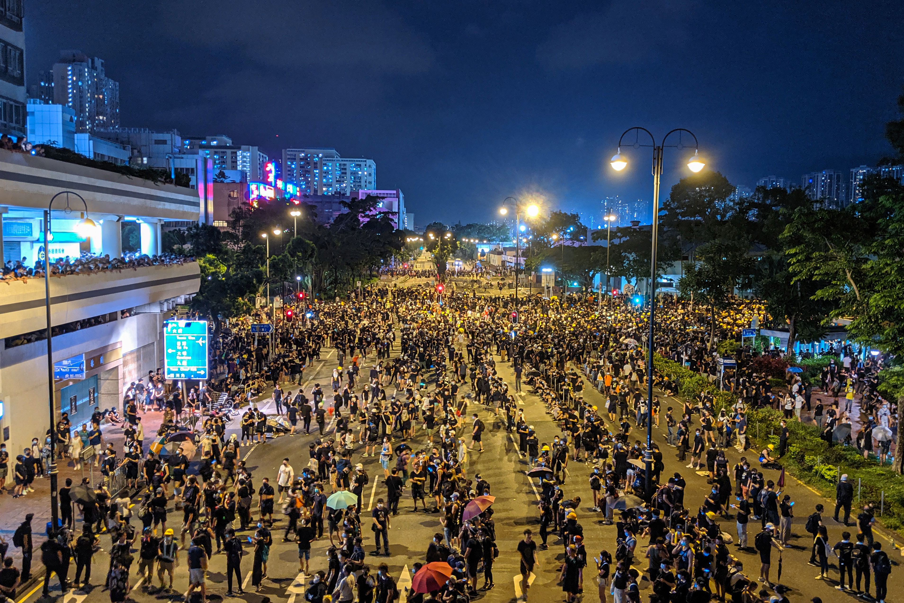 2019 Hong Kong anti-extradition law protest on 14 July 2019 in Sha Tin, captured by Studio Incendo from Flickr.